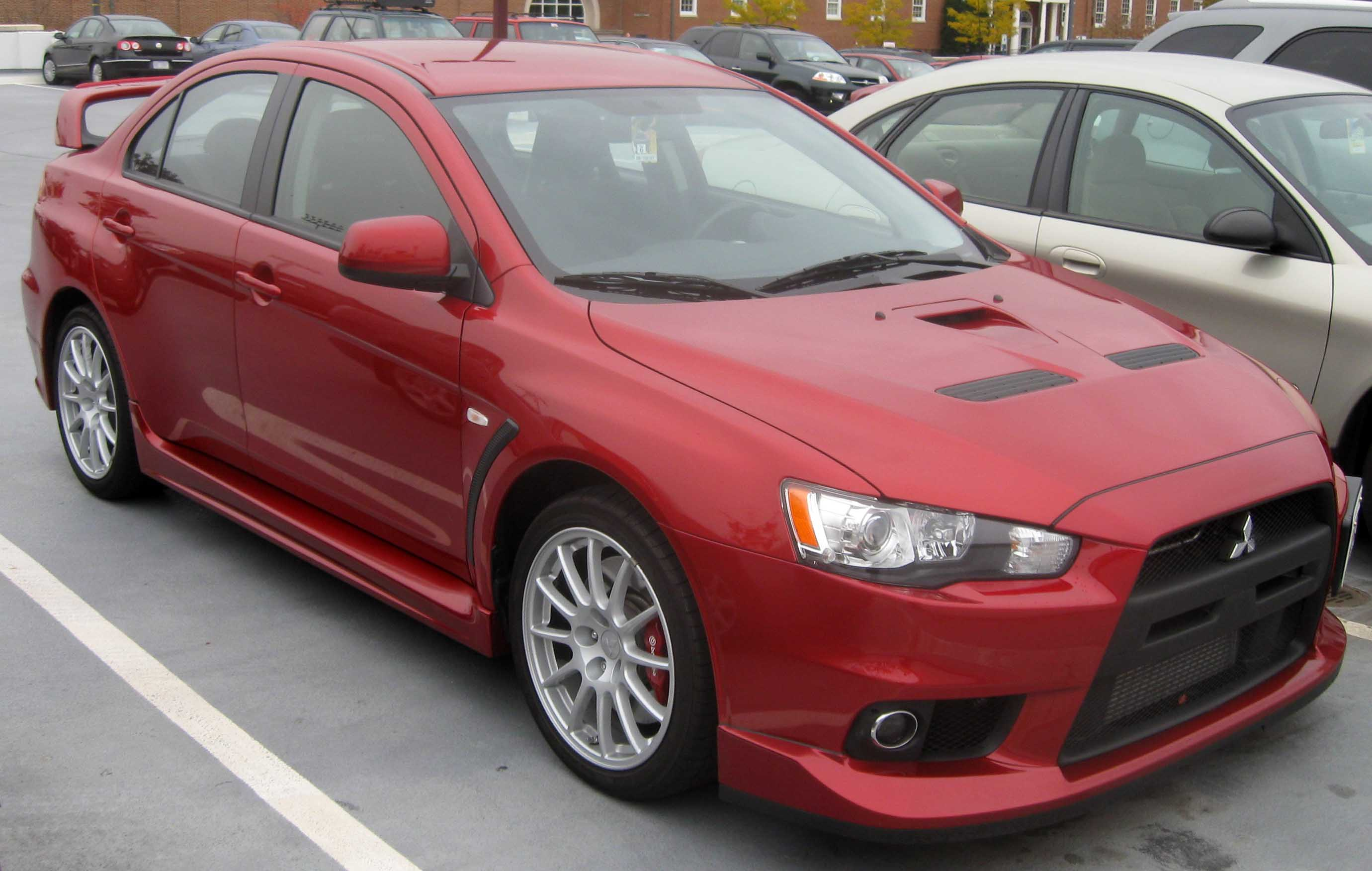 2008 Mitsubishi Lancer Evolution photographed in College Park, Maryland, USA.